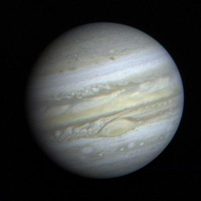 Original Caption Released with Image: This recent photo of Jupiter taken by the television cameras aboard NASA's Voyager 1 is dominated by the Great Red Spot. Although the spacecraft is still 34 million miles (54 million kilometers) from a March 5 closest approach, Voyager's cameras already reveal details within the spot that aren't visible from Earth. An atmospheric system larger than Earth and more than 300 years old, the Great Red Spot remains a mystery and a challenge to Voyager's instruments. Swirling, storm-like features possibly associated with wind shear can be seen both to the left and above the Red Spot. Analysis of motions of the features will lead to a better understanding of weather in Jupiter's atmosphere. This photo was taken Jan. 9, 1979 and reassembled at Jet Propulsion Laboratory's Image Processing Laboratory. JPL manages the Voyager project for NASA.